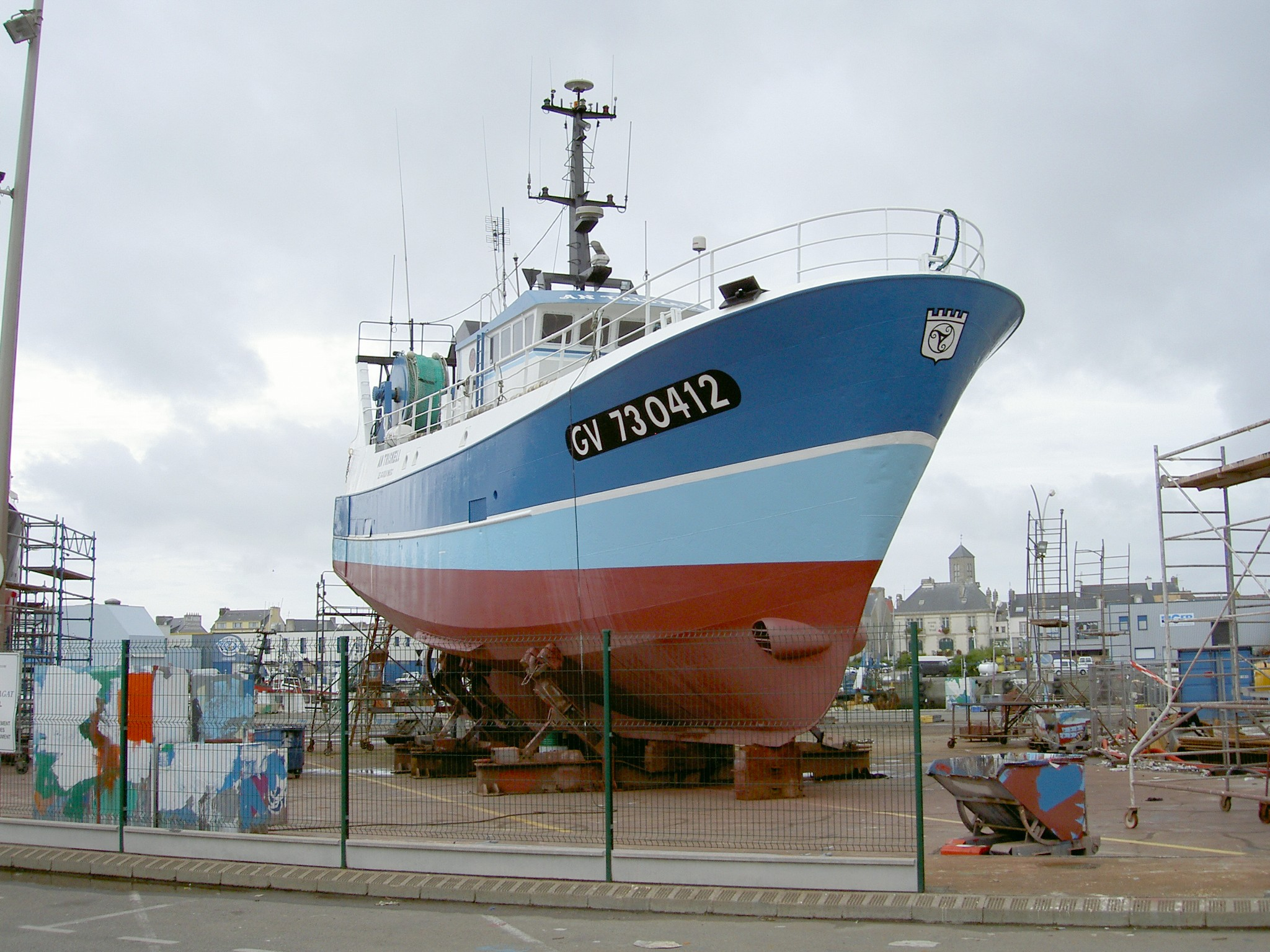 Maintenance of a trawler (Treffiagat, France).